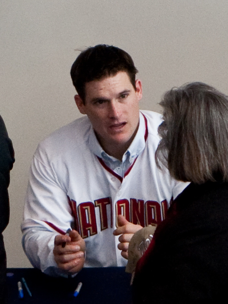 Josh Willingham